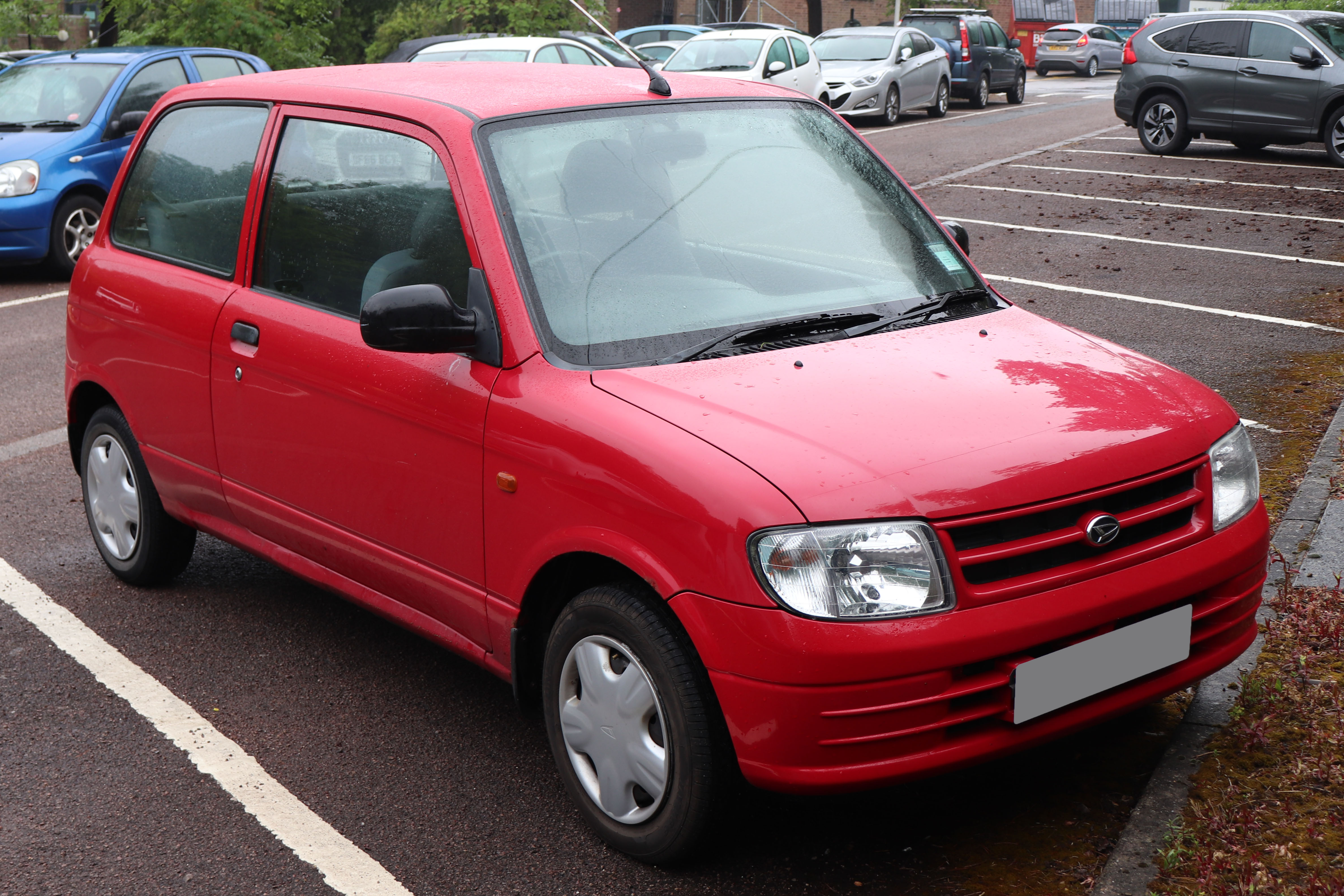 1999 Daihatsu Cuore 1.0 Front Taken in Leamington Spa